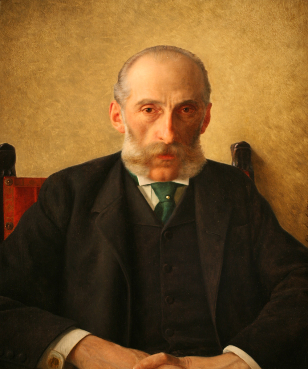 Isidor Kaufmann, Austrian, b. Hungary, 1853-1921 Portrait of Isidor Gewitsch, c. 1900 Oil on panel 18 1/16 x 14 5/8 in. (45.9 x 37.1 cm) The Jewish Museum, New York Gift of Mr. and Mrs. M.R. Schweitzer, JM 3-63 Wikipedia Loves Art at the Jewish Museum (New York City) This photo of item # JM-3-63 at the Jewish Museum (New York City) was contributed under the team name "shooting_brooklyn" as part of the Wikipedia Loves Art project in February 2009. Jewish Museum (New York City) The original photograph on Flickr was taken by shooting brooklyn—please add a comment to the original Flickr page whenever a use has been made on Wikipedia or another project. Project galleries on Flickr: this institution, this team